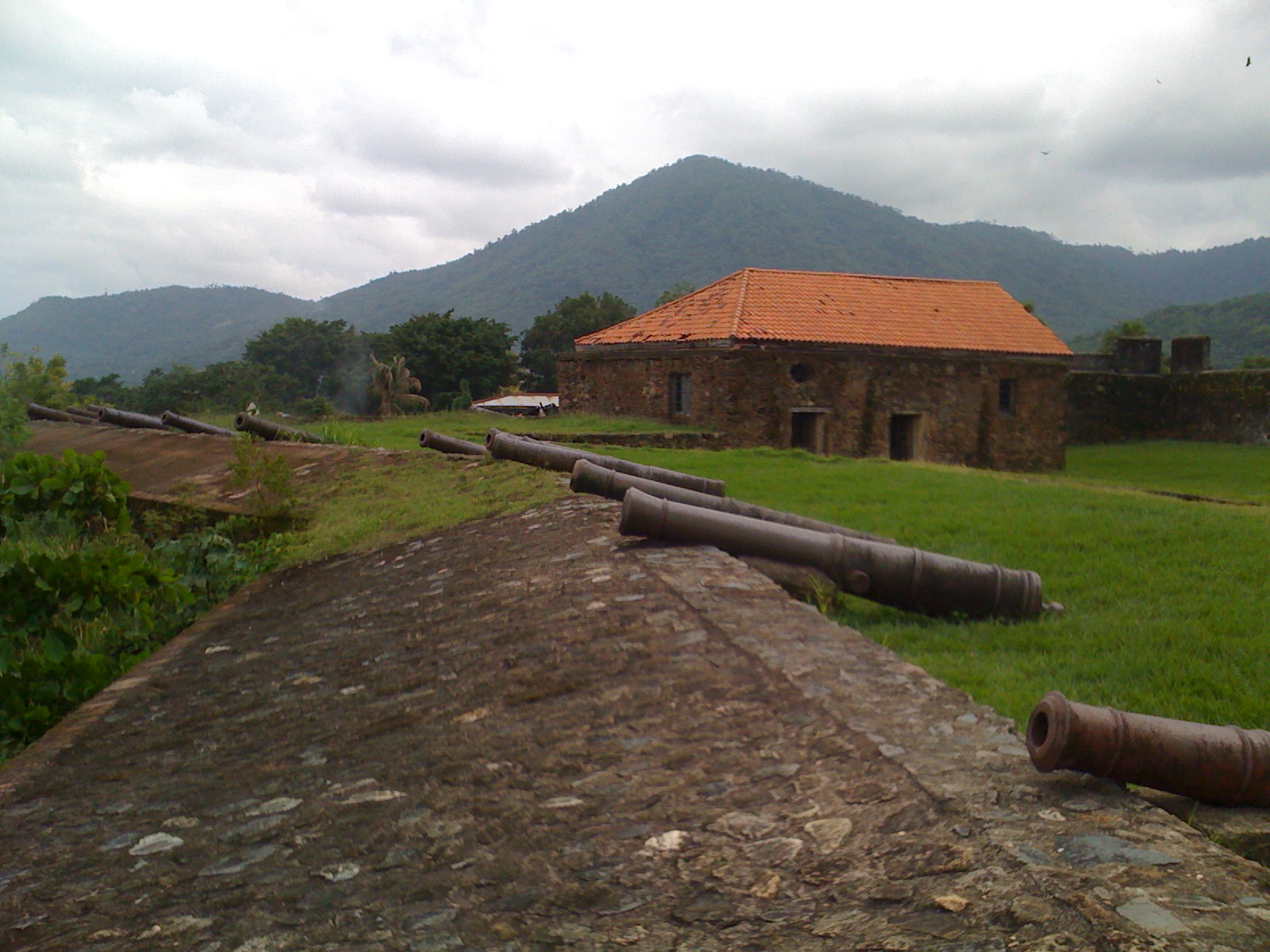 CAÑONES FORTALEZA SANTA BARBARA